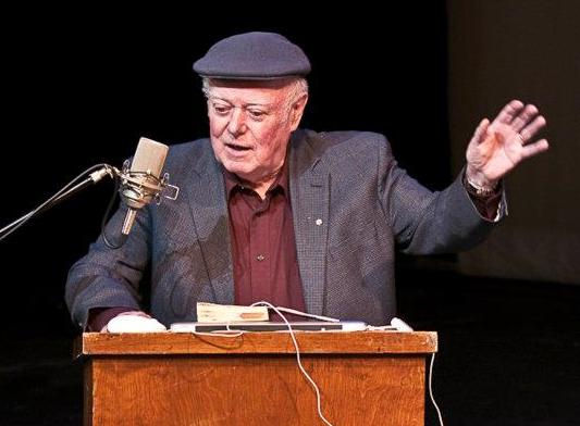 Canadian writer Alistair MacLeod reading at Cape Breton University in 2012.